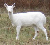 Cropped version of this picture.